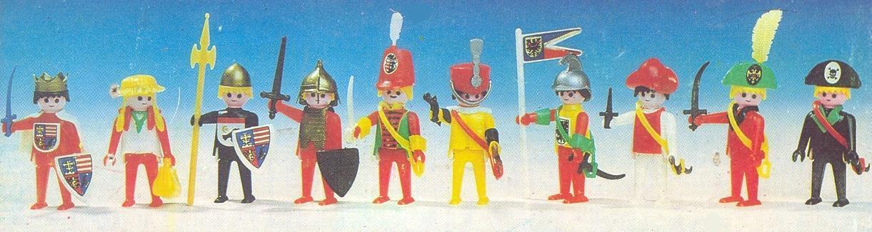 Schenk figures